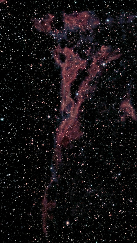 Pickerings Wisp